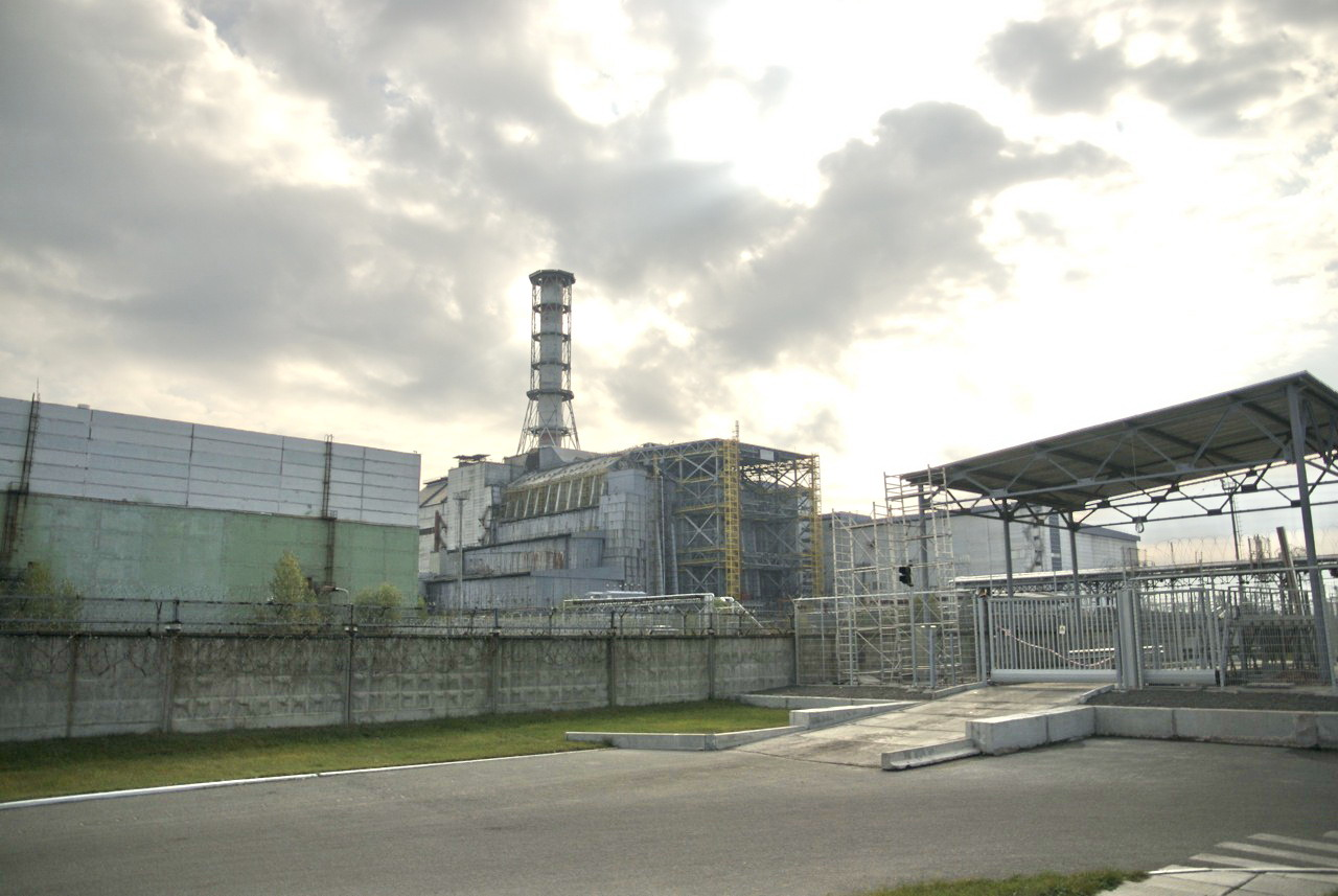 The Chernobyl reactor #4 with enclosing sarcophagus.